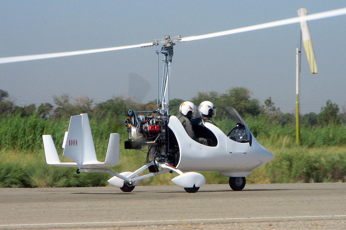 A ELA Aviacion ELA-07S of Islamic Republic of Iran Police in Firuzabad Aviation Center. There are about 10 ELA-07S that are in service with Iranian Police at Firuzabad Airfield.